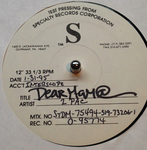 Side A of the Tupac Shakur test pressing 12-inch single "Dear Mama / Old School". This record was released in 1995 on Interscope Records.